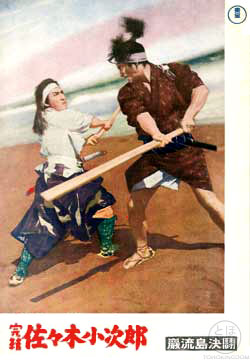 Japanese movie poster for 1956 Japanese film Samurai III: Duel At Ganryu Island (Miyamoto Musashi kanketsuhen: kettô Ganryûjima).